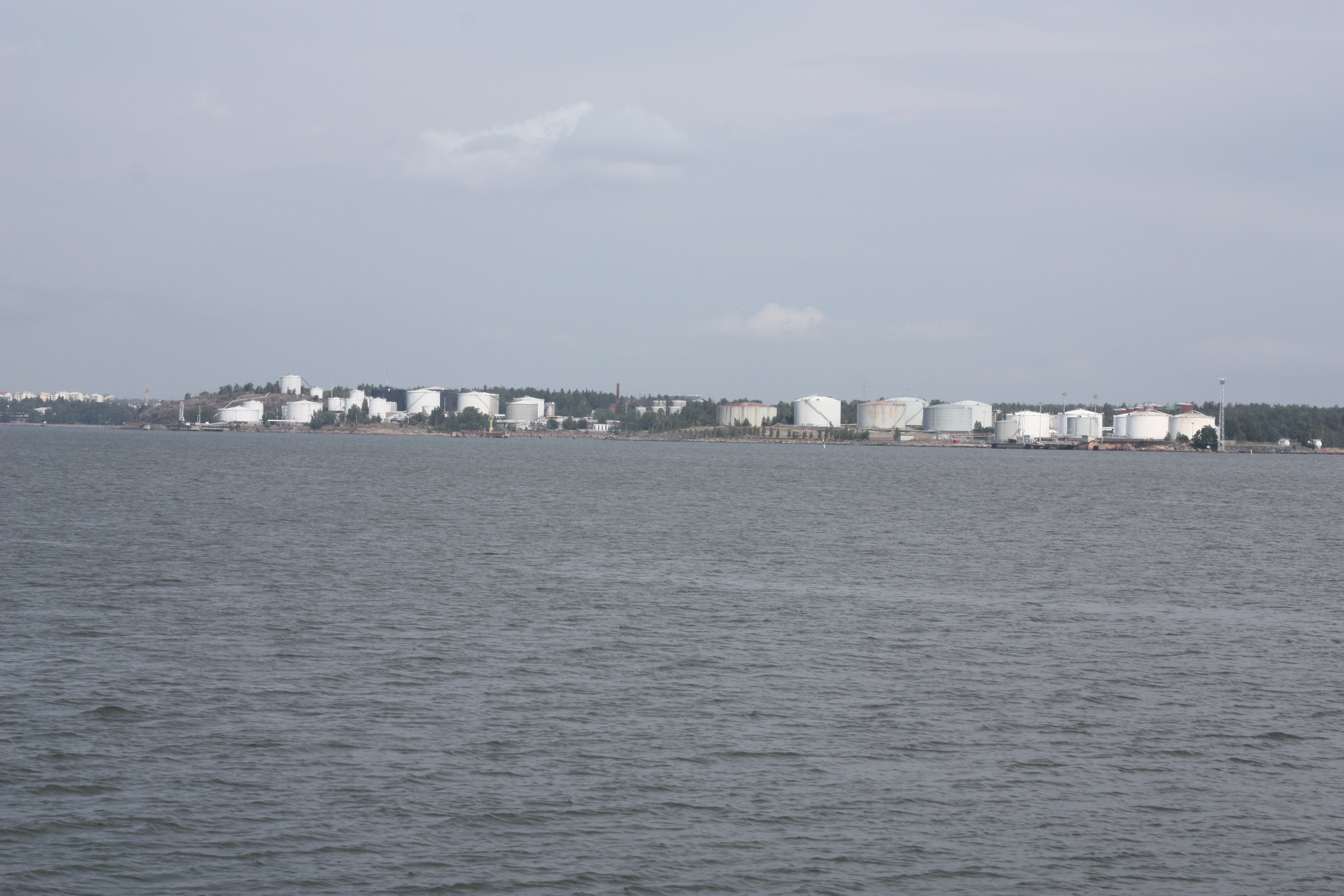 Laajasalo oil harbour.